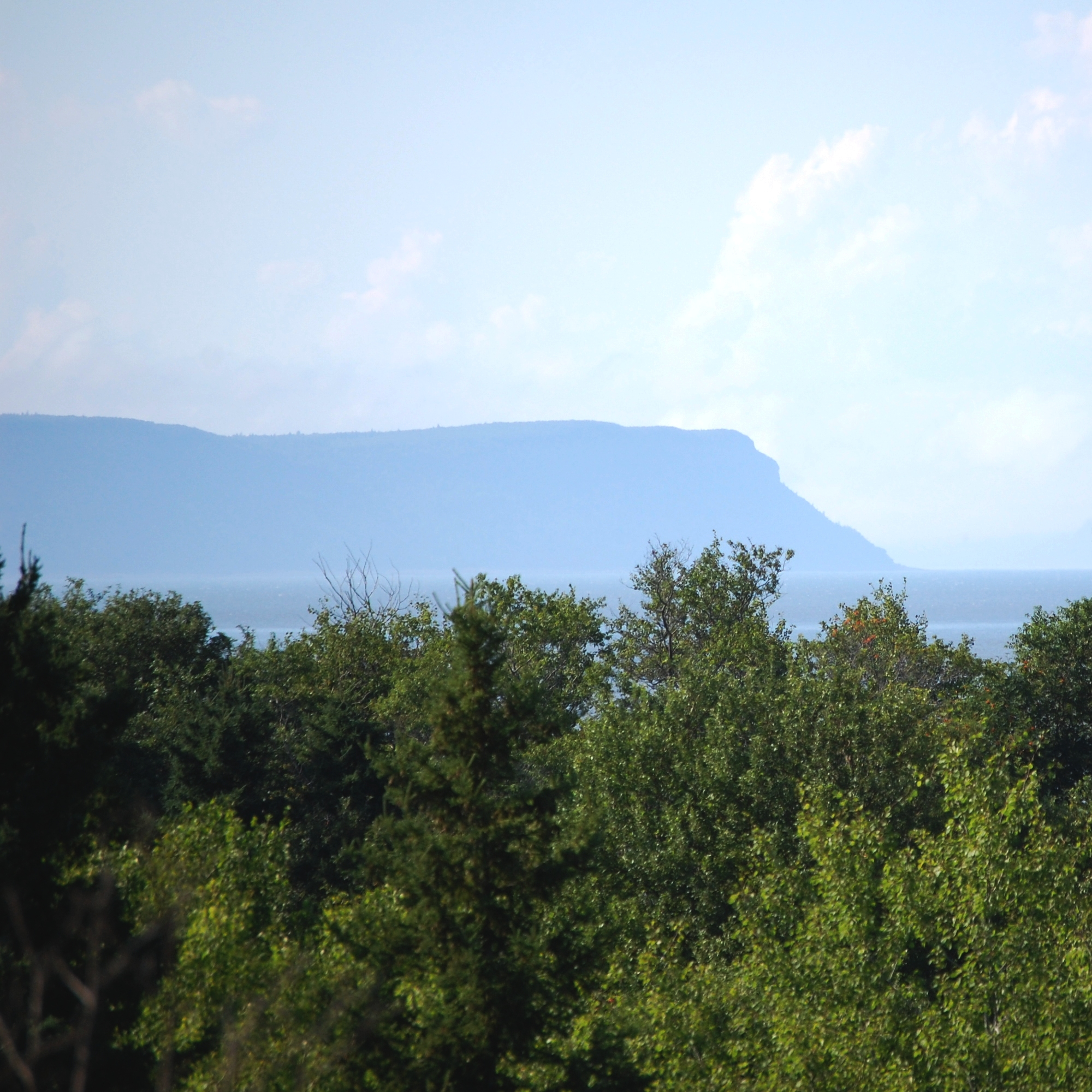 View of Cape Blomidon from Cheverie, Nova Scotia. the body of water is called Minas Basin